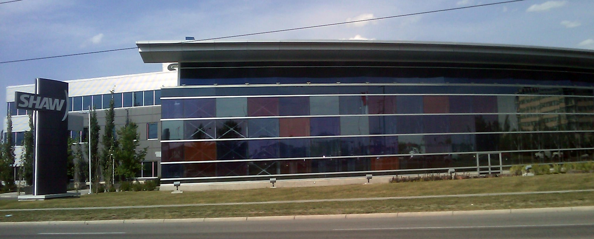 Shaw Communications in Calgary, Alberta, Canada (Barlow Trail x 32 Ave N)